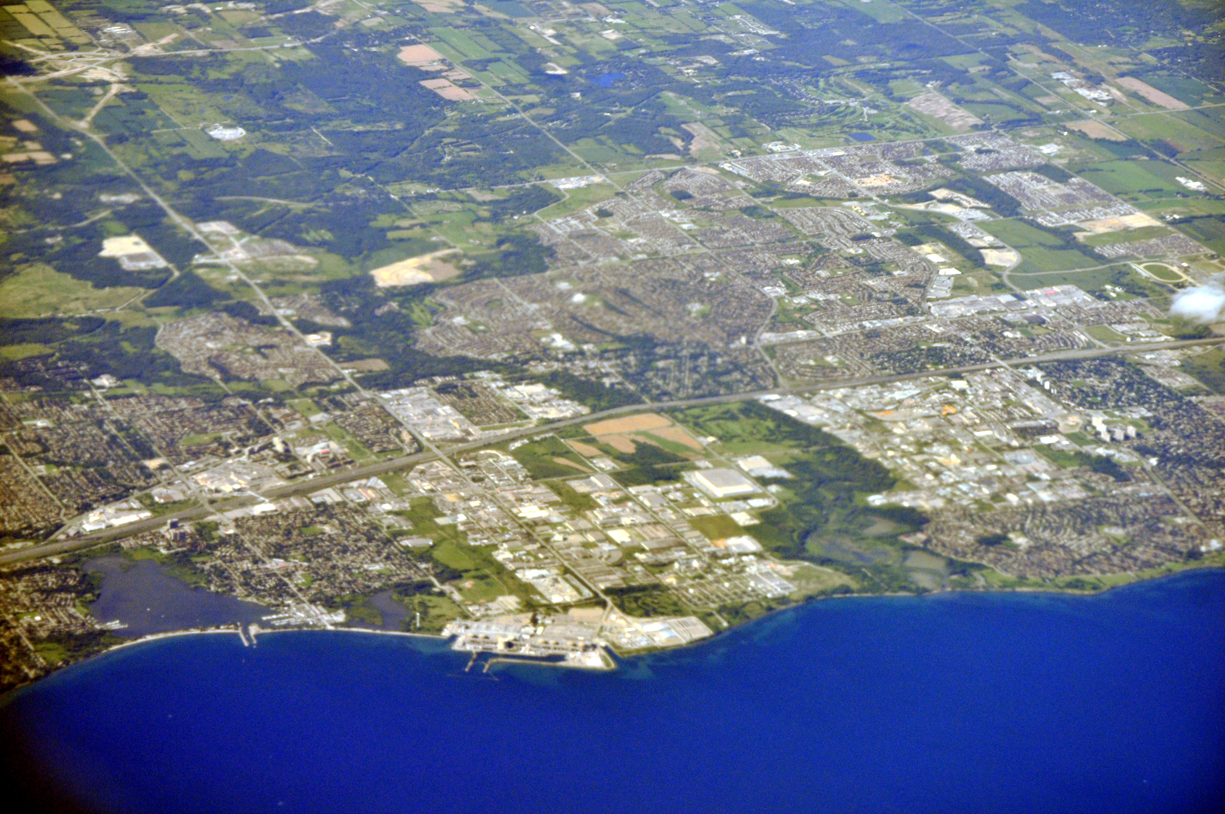 Aerial view of Pickering, Ontario, Canada.